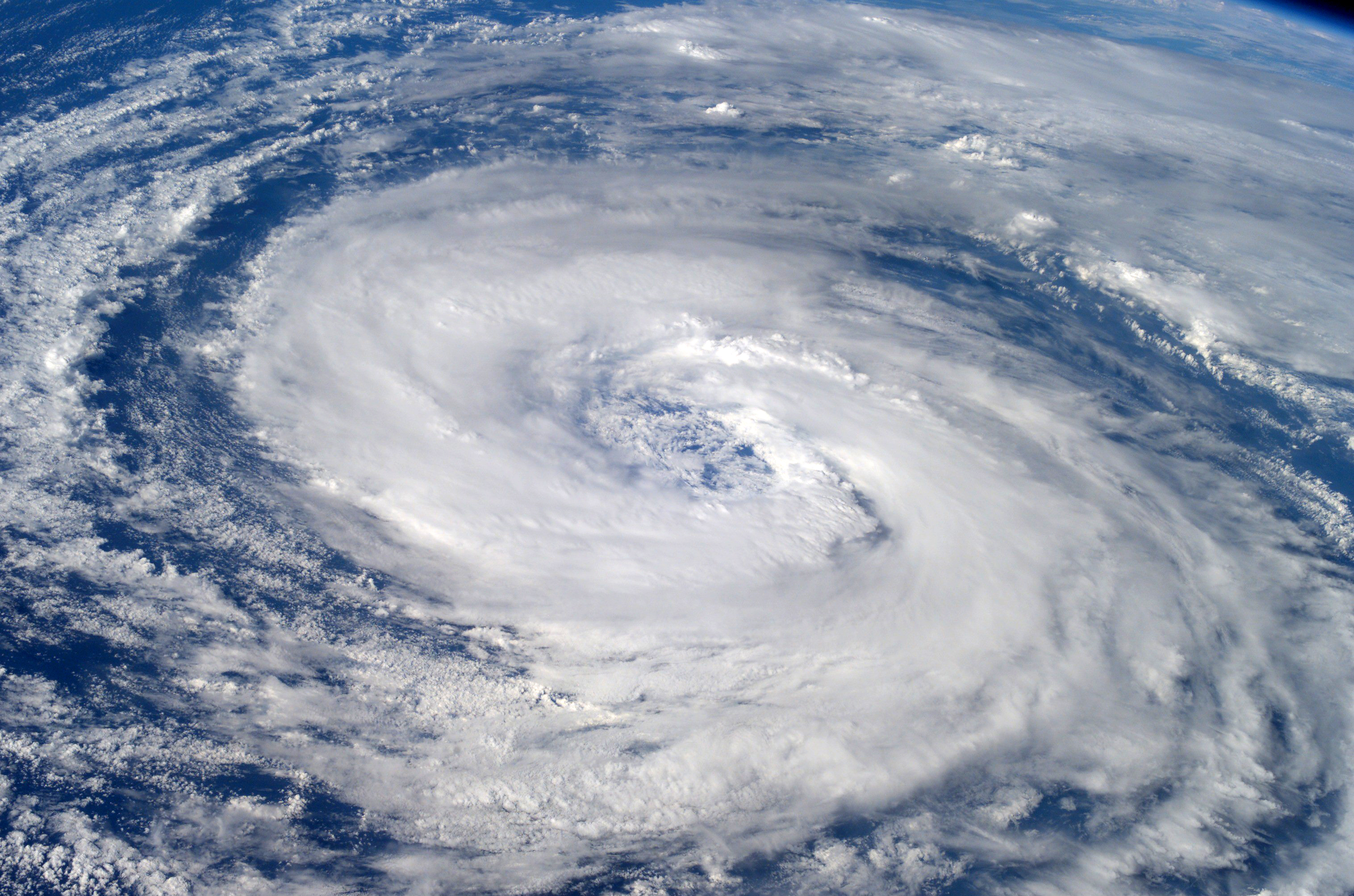 This view of Hurricane Epsilon in the Atlantic Ocean was photographed at 15:36:18 GMT on Dec. 3, 2005 by one of the crewmembers of Expedition 12 aboard the International Space Station. The orbital outpost was flying at an altitude of 190 nautical miles. Center point coordinates are 34.5 degrees north latitude and 44.4 degrees west longitude.